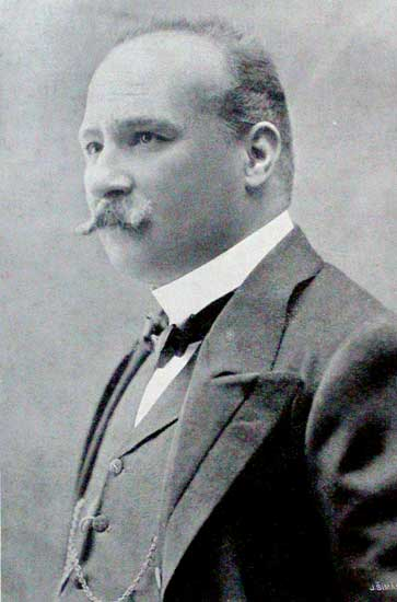 Italian sculptor Arnaldo Zòcchi.